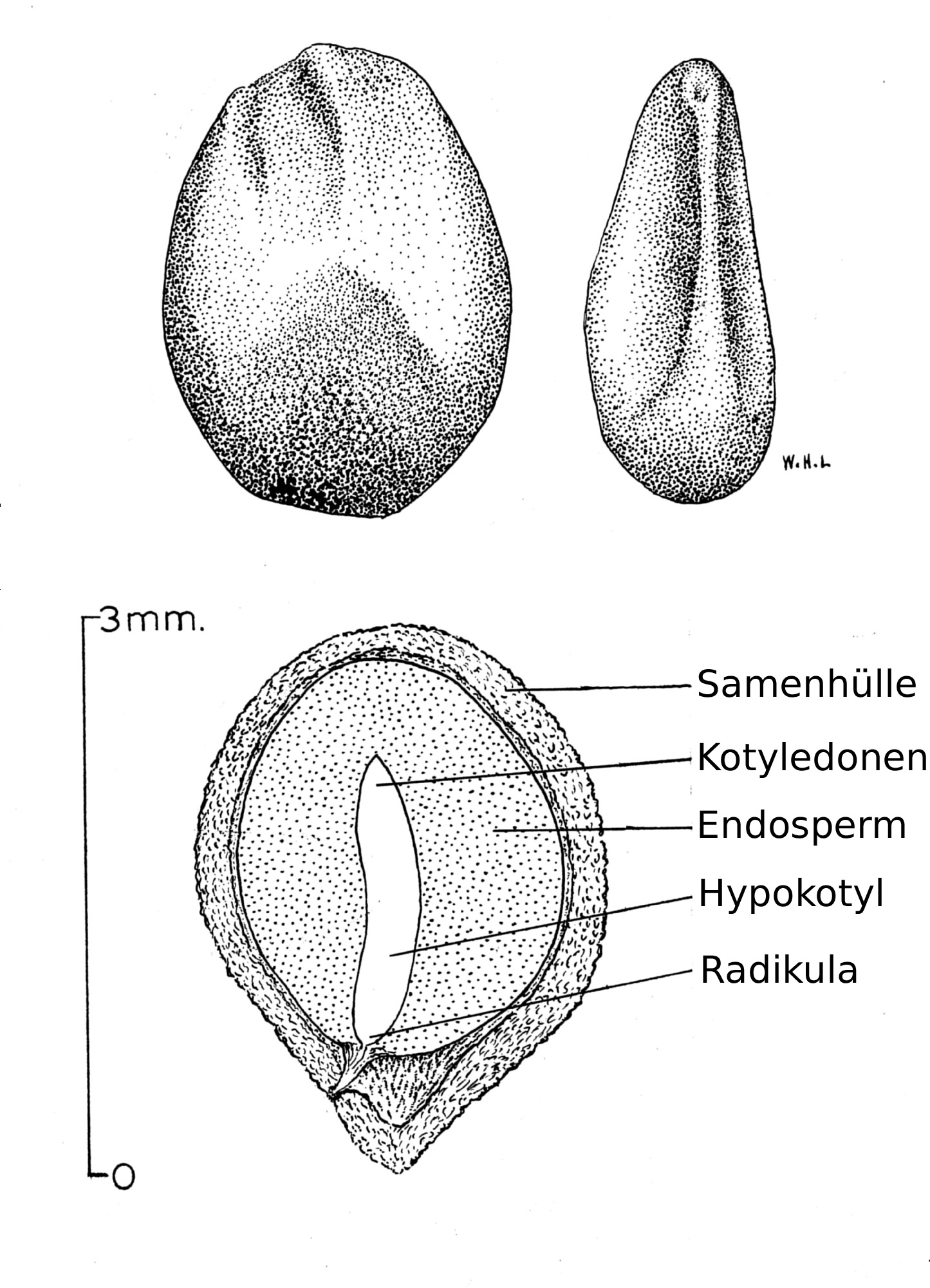 Drawing of a Seed of Solanum, German Translation